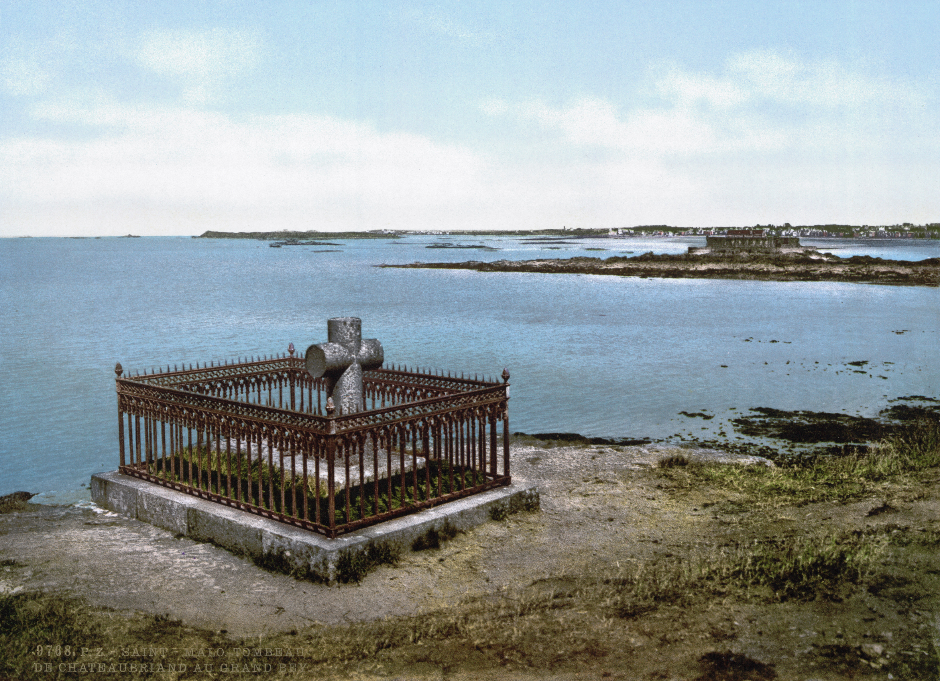 Tomb of François-René de Chateaubriand (1768-1848), Saint-Malo, sur le Grand Bé face à la mer.